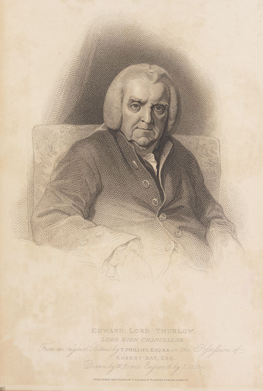 Edward Thurlow, 1st Baron Thurlow (1731-1806)